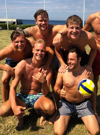 Swedish pop group Albatraoz at Strand Hotel in Borgholm, Sweden, in 2014.